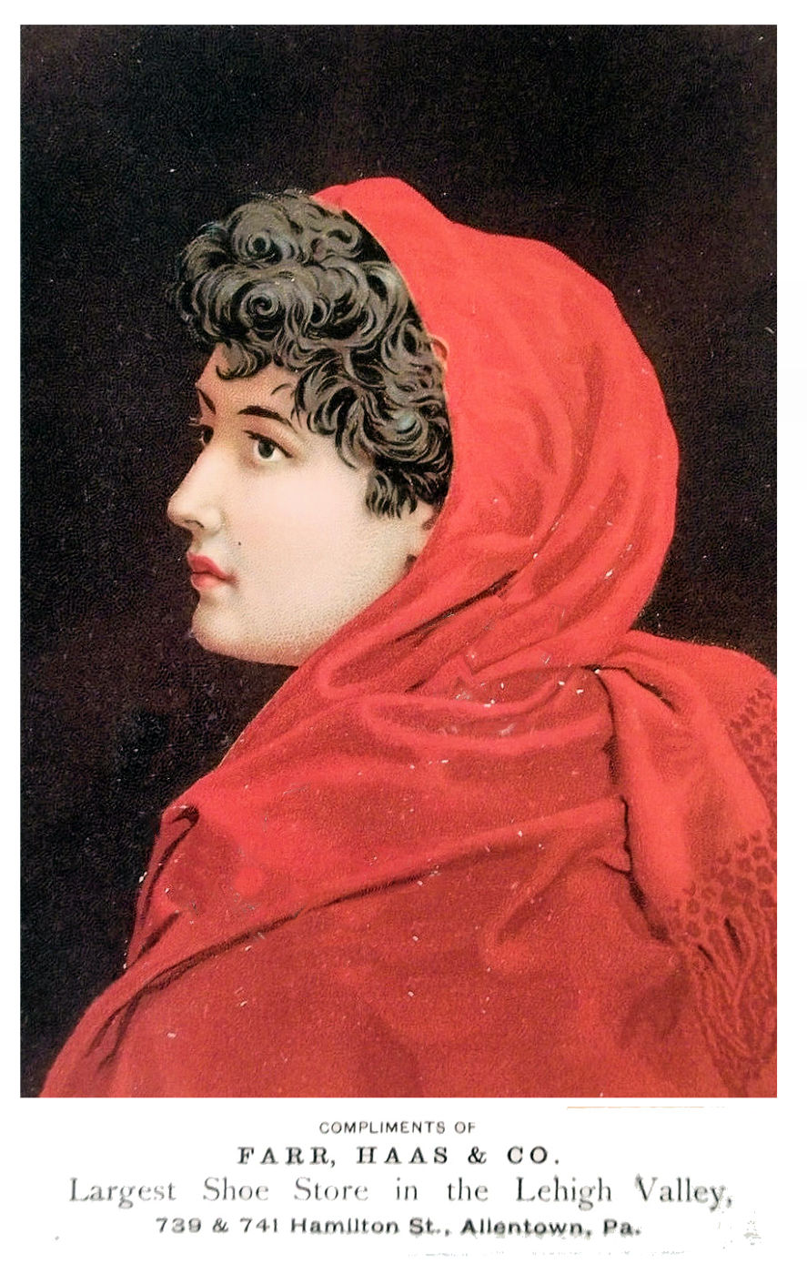 1890 - Farr Haas & Company - Trade Card